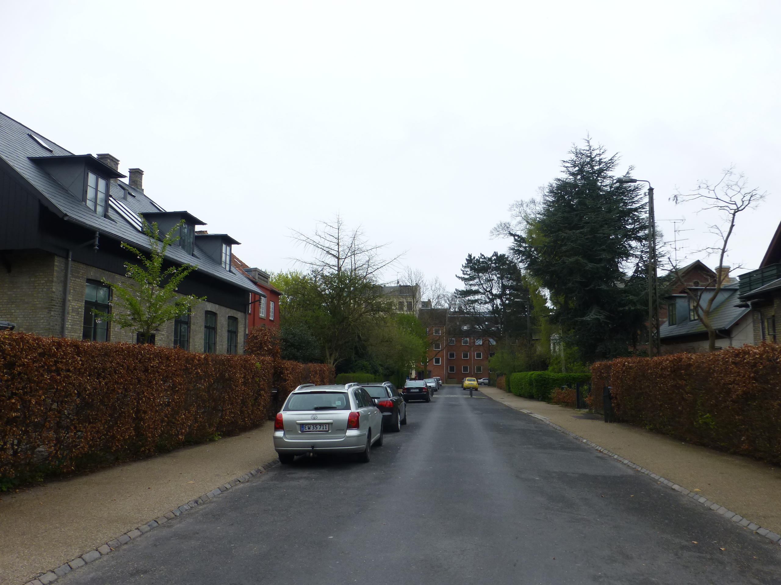 The street Rosenvængets Alle at Rosenvængets Hovedvej in Østerbro in Copenhagen.